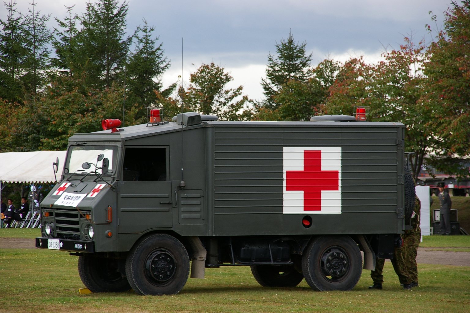 JGSDF Type73 middle track (=medium truck?) ambulance version.